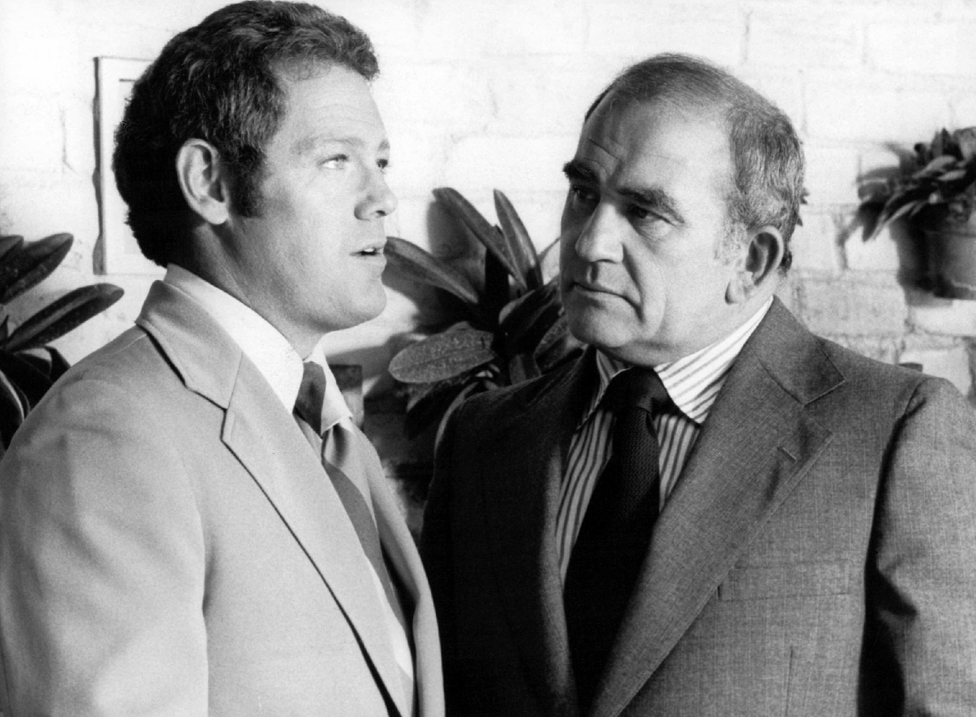 Photo of James MacArthur as Danny Williams and guest star Ed Asner from the television program Hawaii Five-O.